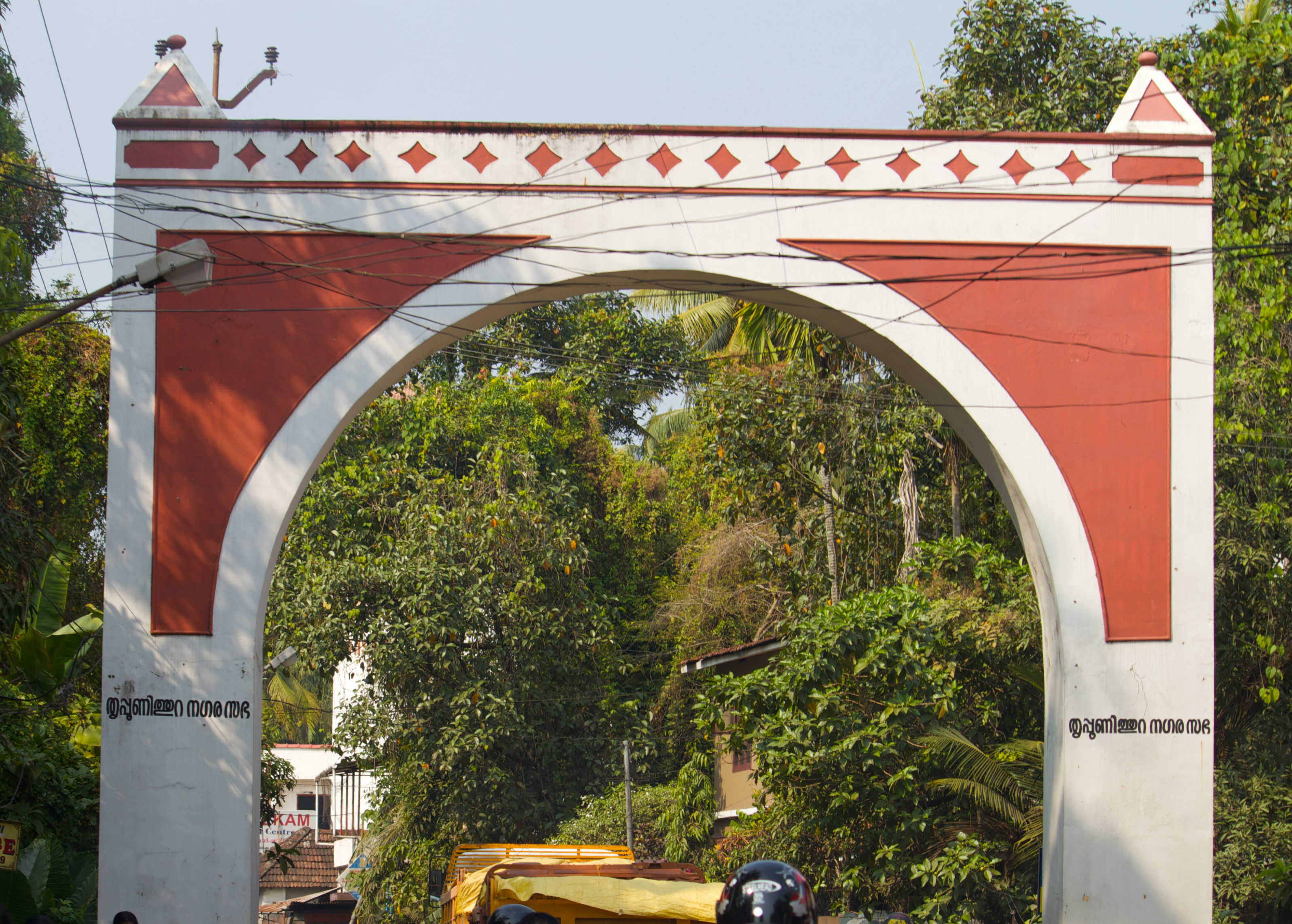 Hill palace, Fort gate